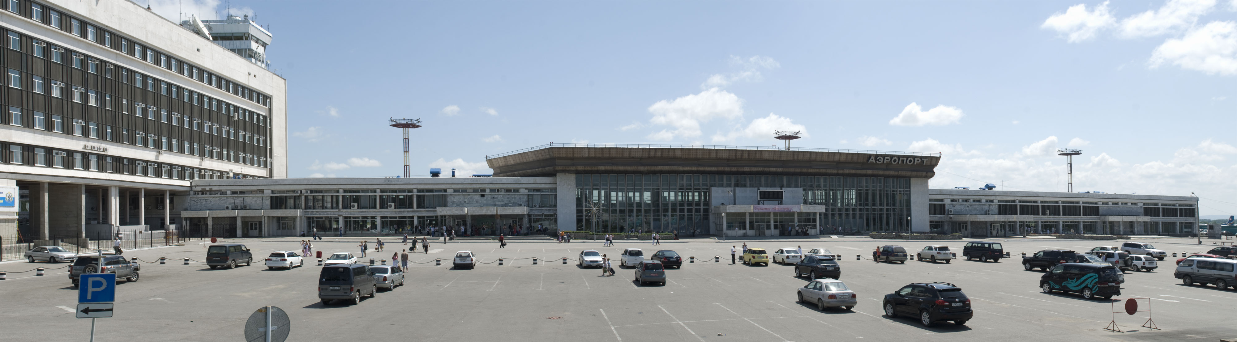 The area in front of the airport of Khabarovsk